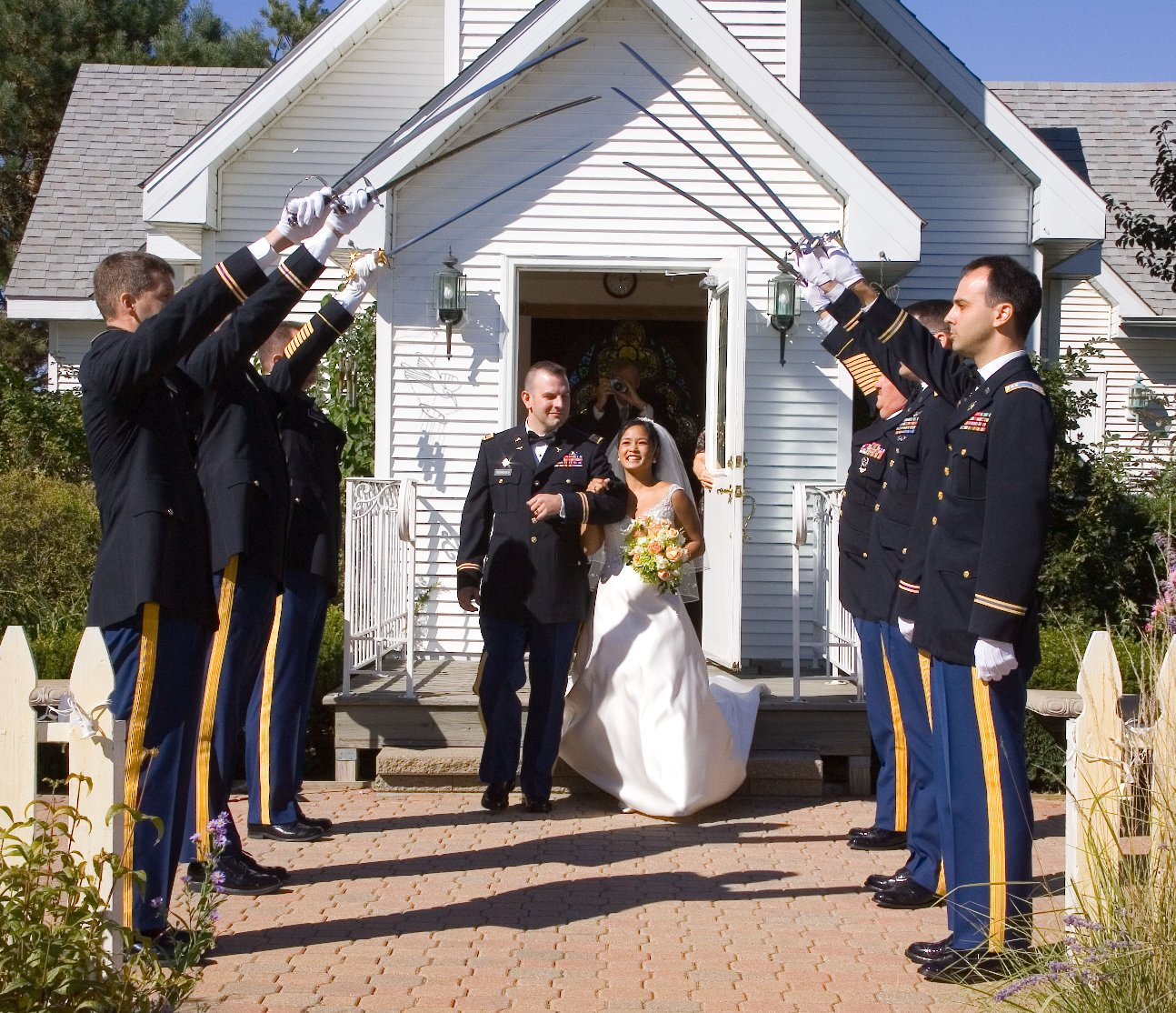 Military Saber Arch at a Wedding